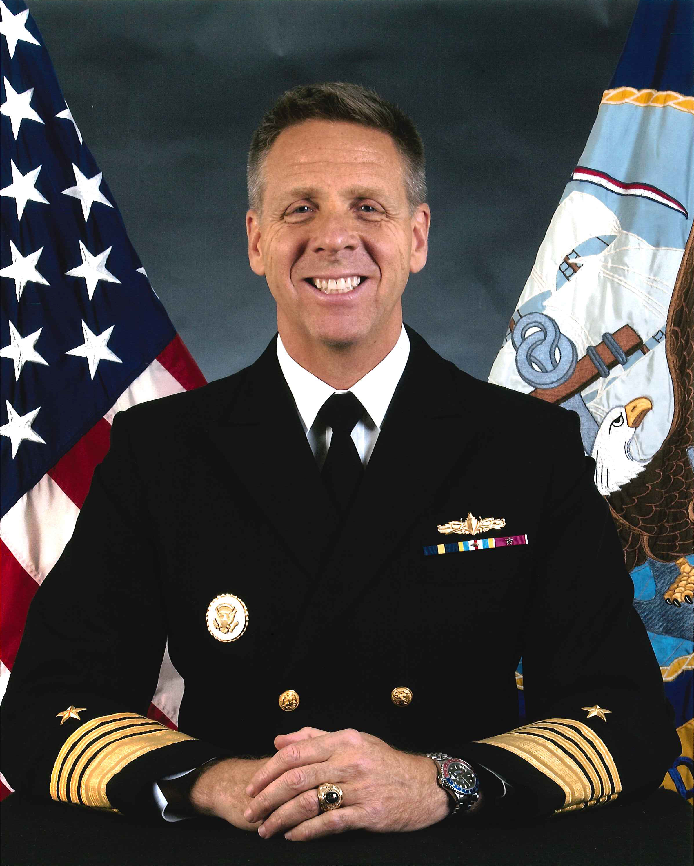 Adm. Phil Davidson, Commander U.S. Fleet Forces Command (12/2014)